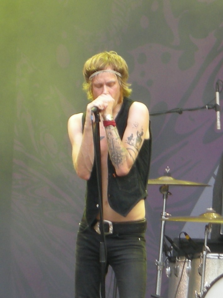 Dennis Lyxzén, The (International) Noise Conspiracy, at Sonisphere Sweden 2009